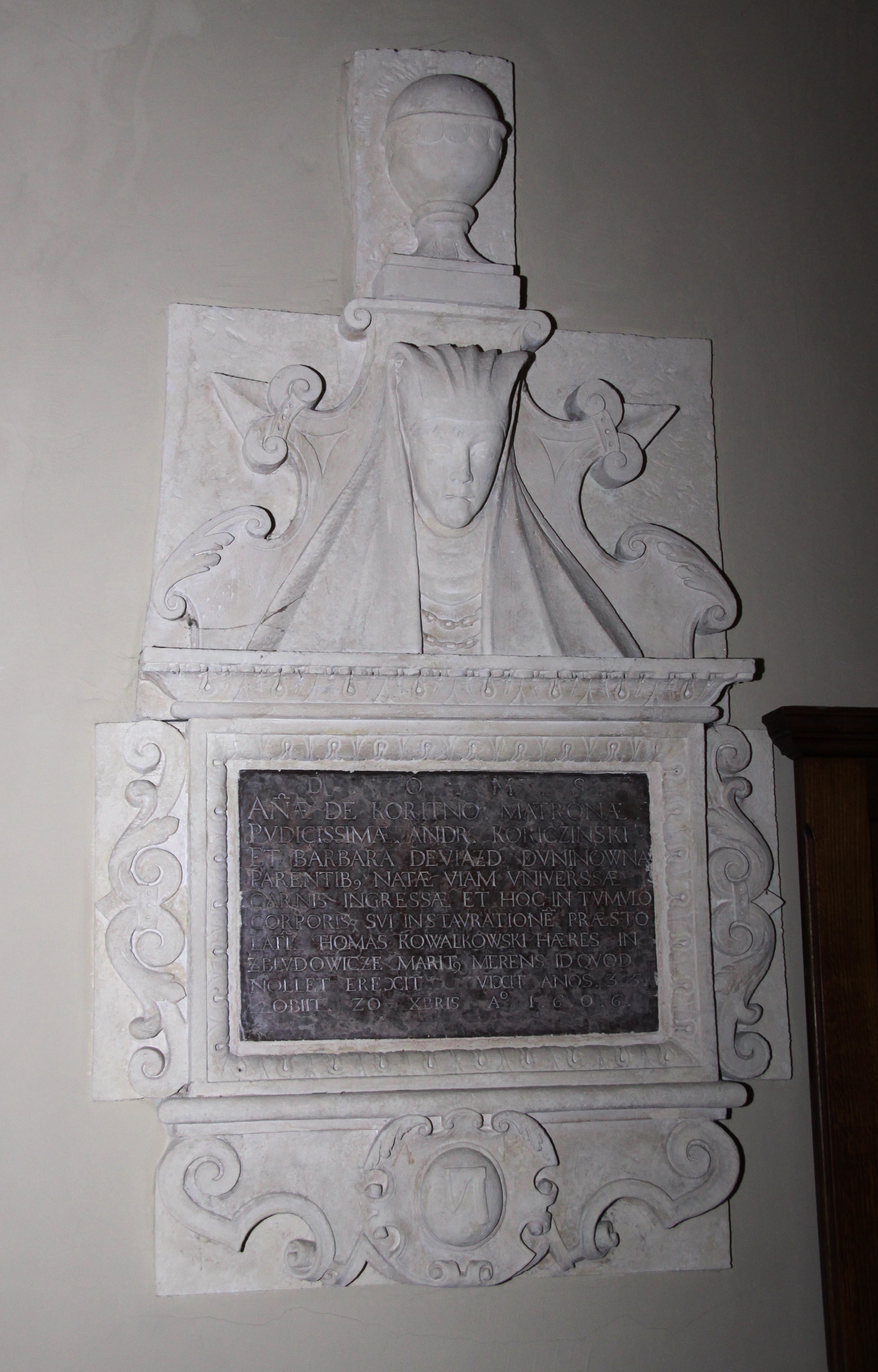 Busko-Zdroj, church of the Immaculate Conception of the Blessed Virgin Mary, St. Anna's chapel - Anna Korczńska's epitaph